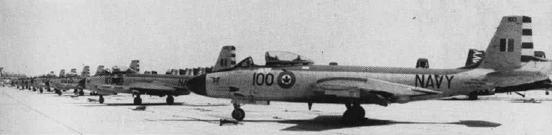 McDonnell F2H-3 Banshee fighters of the Royal Canadian Navy at the U.S. Naval Air Station Key West, Florida (USA), in 1957.